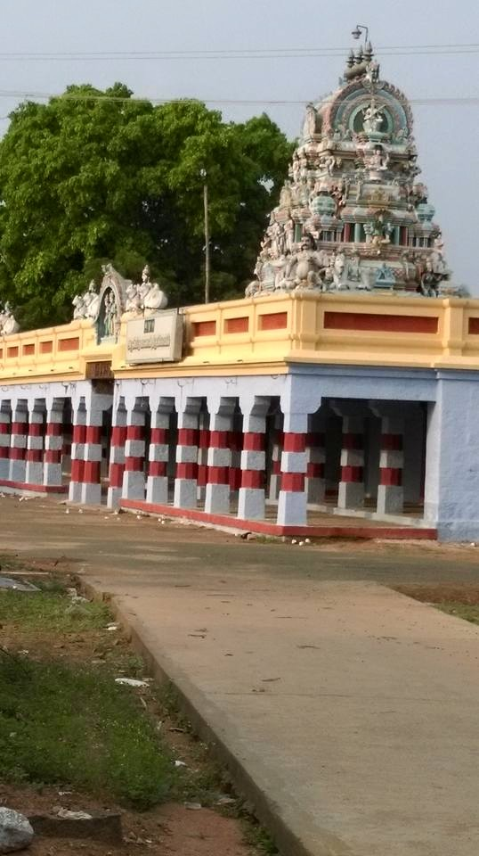 Closer View of Bhagavan Kovil near Dharapuram.